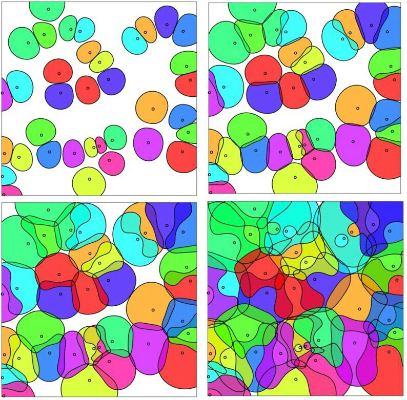 SINR cells of a wireless network model increase as node (or base station) powers increase.